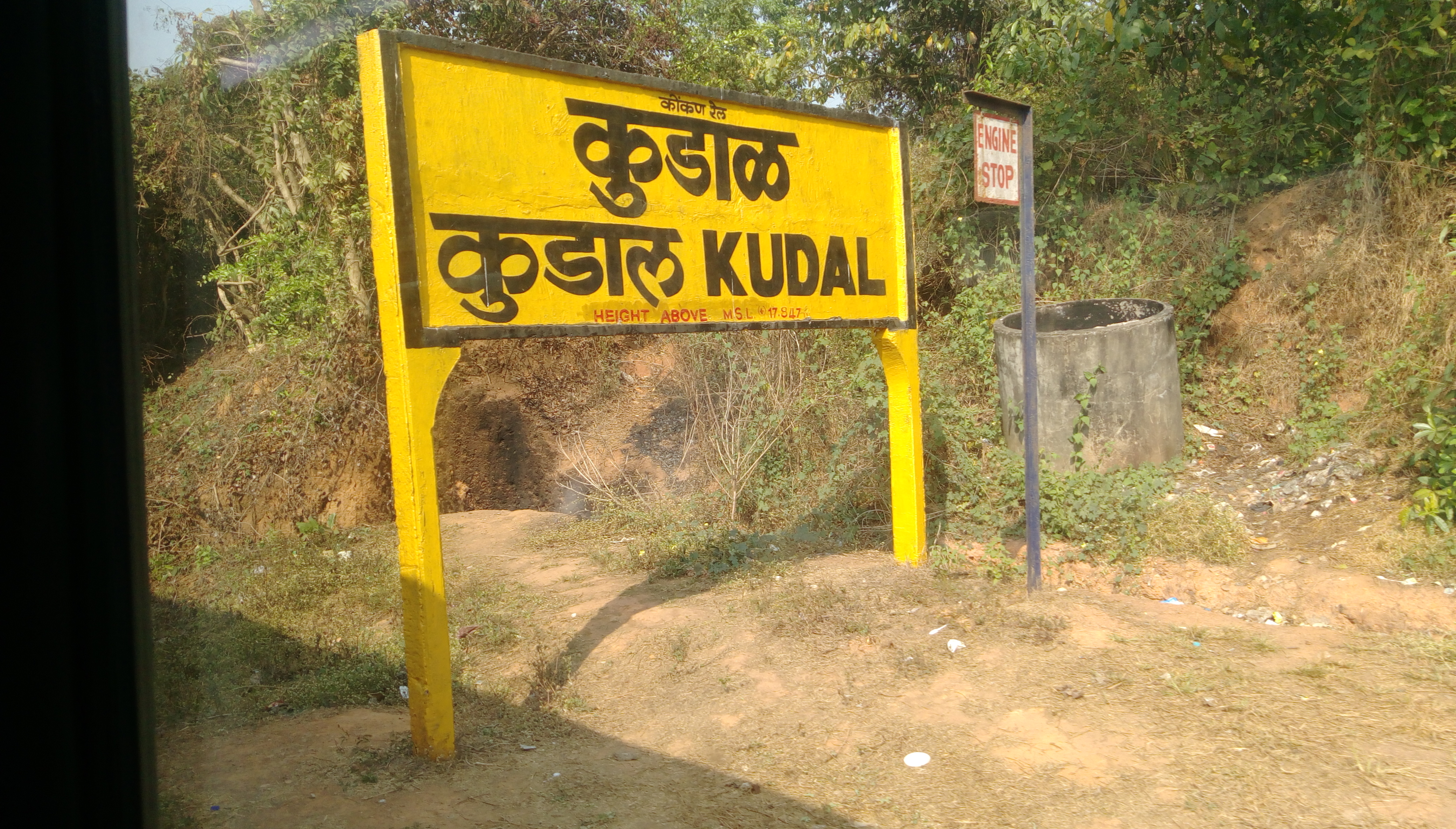 Kudal railway station - Station board